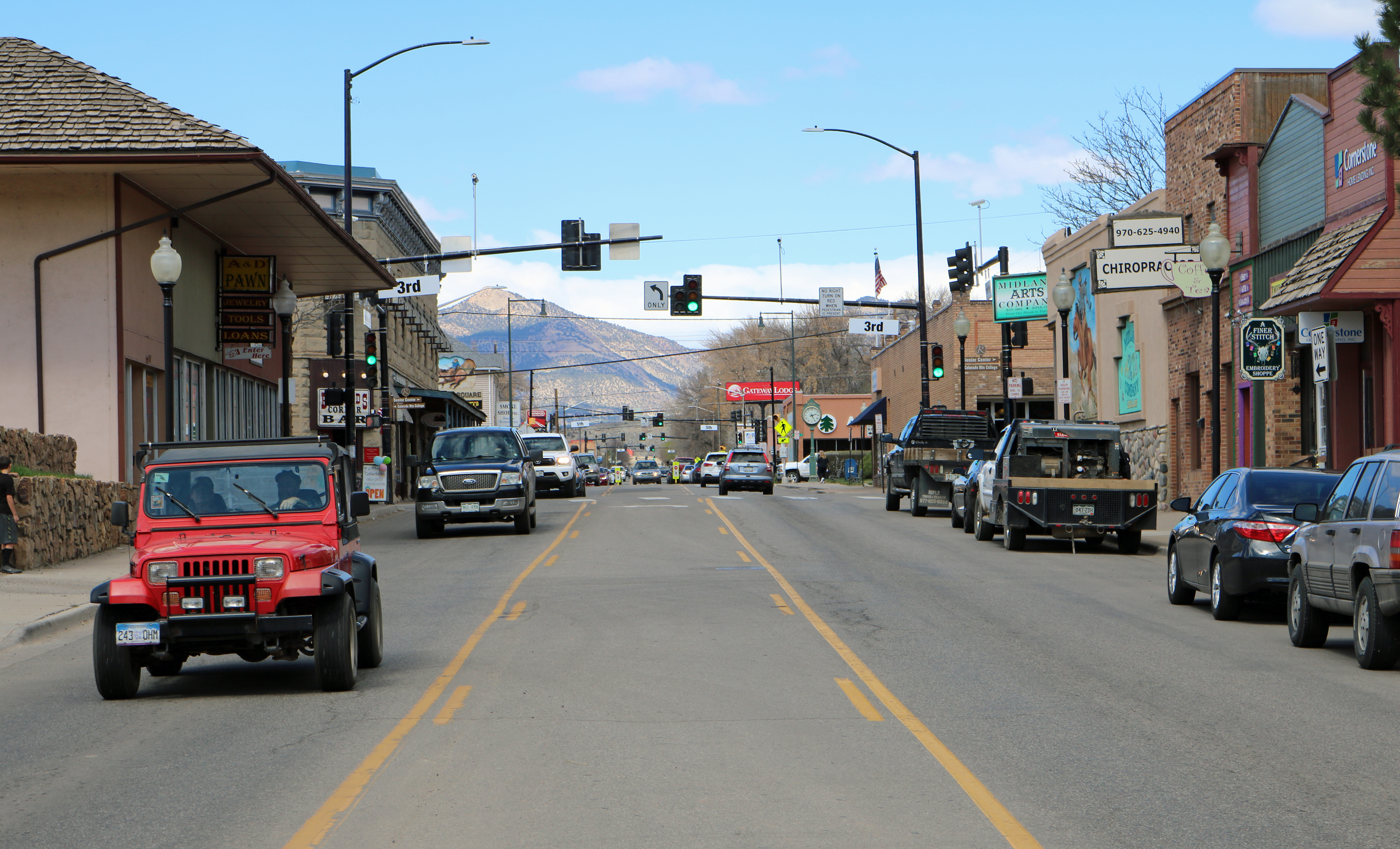 A view of Railroad Avenue in Rifle, Colorado. The view is to the north, and part of the Grand Hogback is seen in the distance.